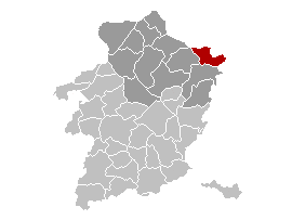 Map, municipality belgium Kinrooi.